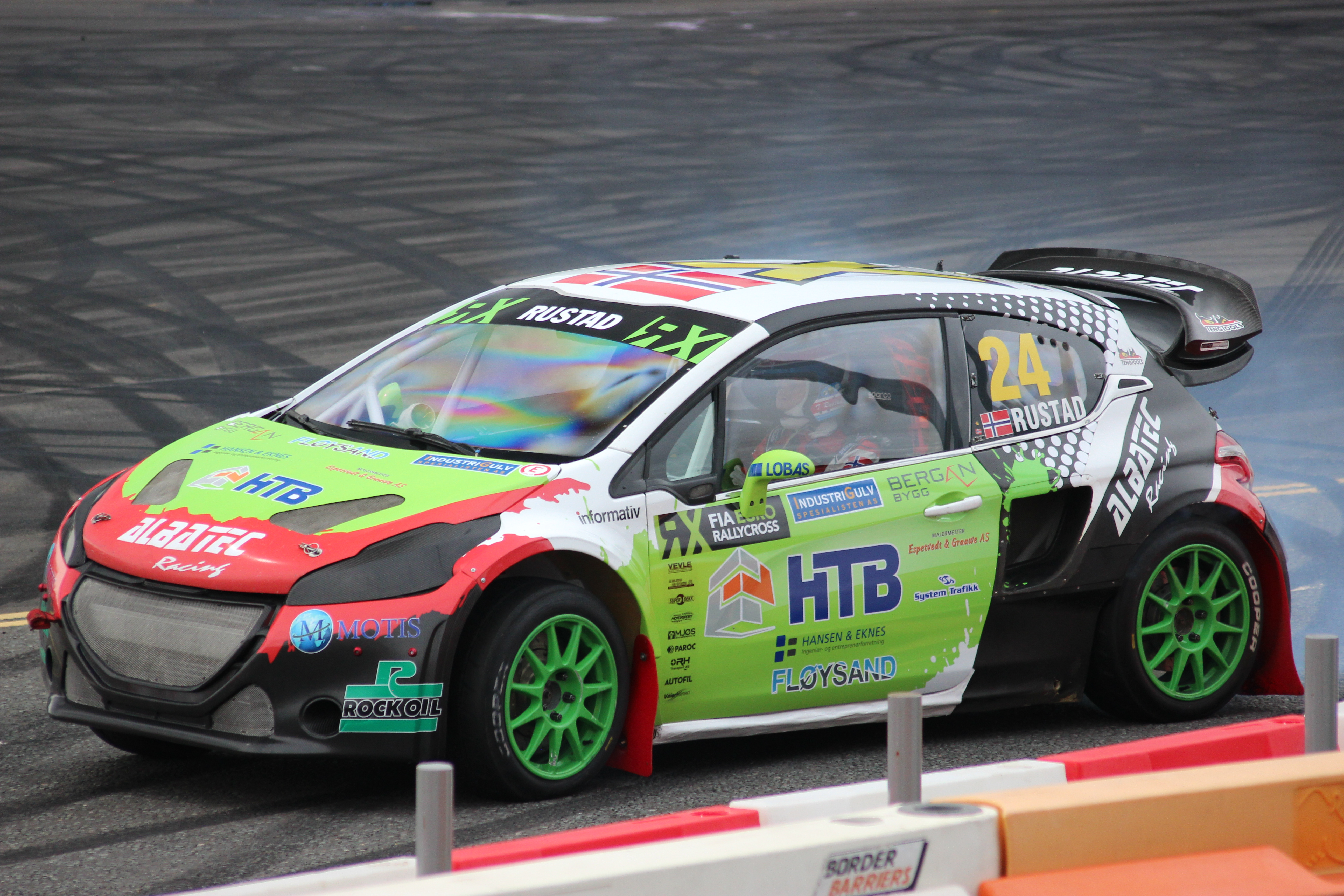 Ignition Festival Scotland